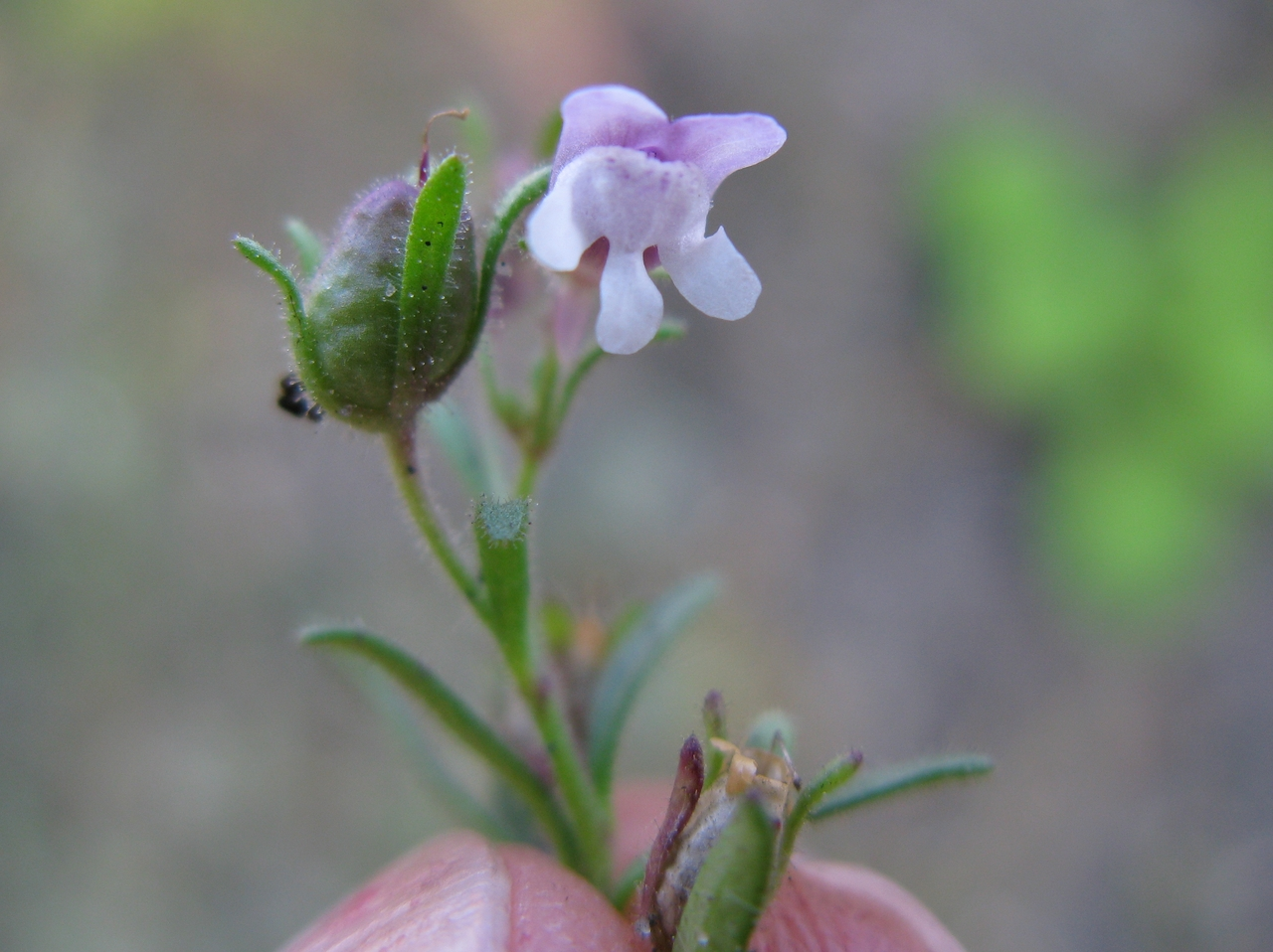 Chaenorhinum minus north germany